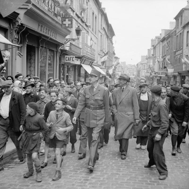 General De Gaulle in France General de Gaulle walking through the streets of Bayeux, France, followed by a crowd of enthusiastic citizens.